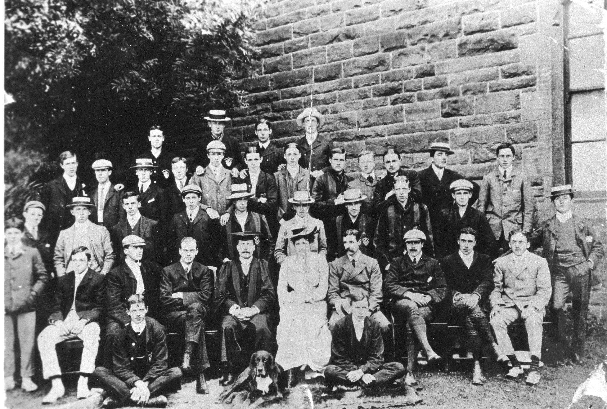 Photo's of Aspatria Agricultural College (Group)